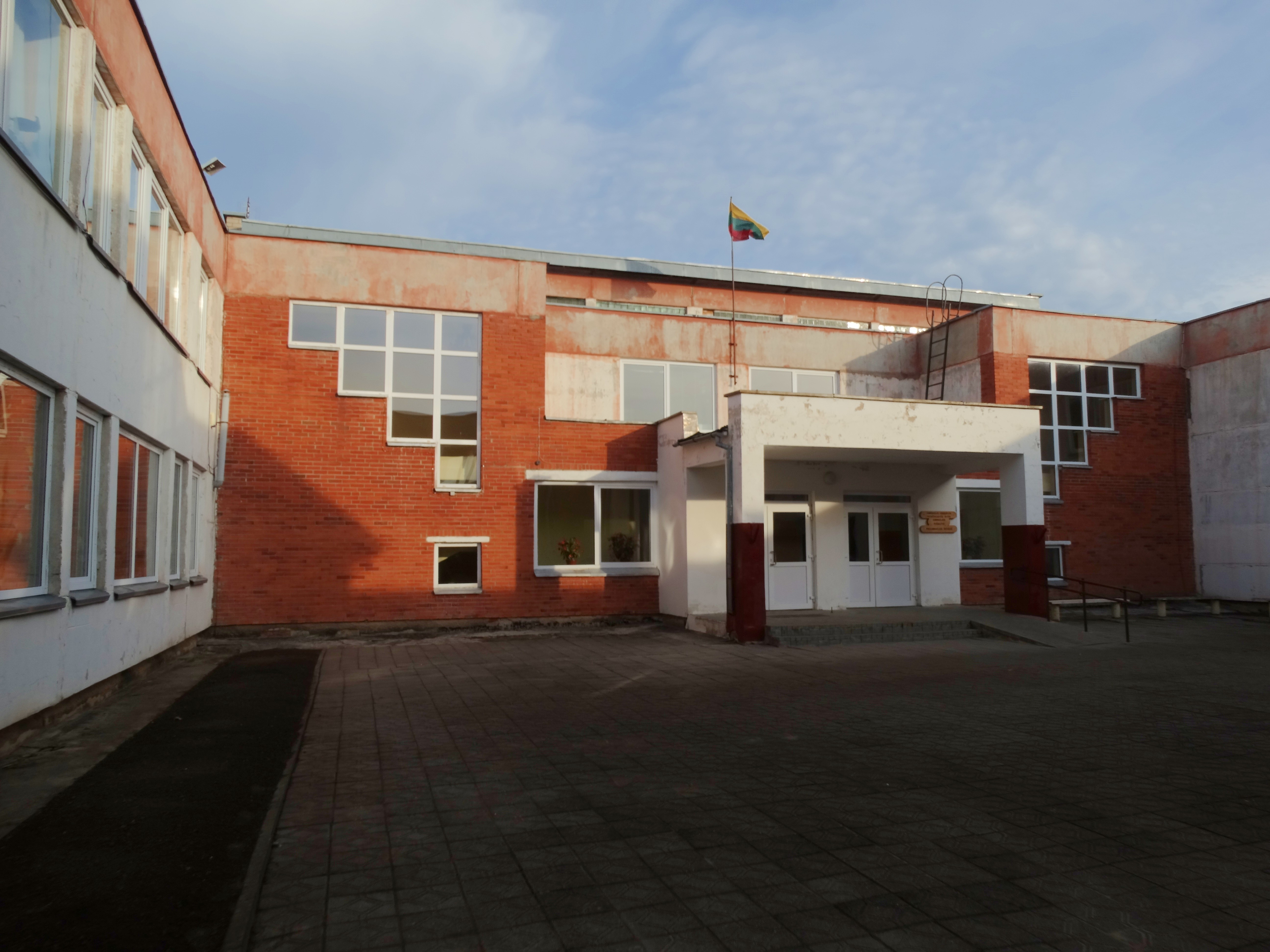 Progymnasium, Pušalotas, Pasvalys district, Lithuania